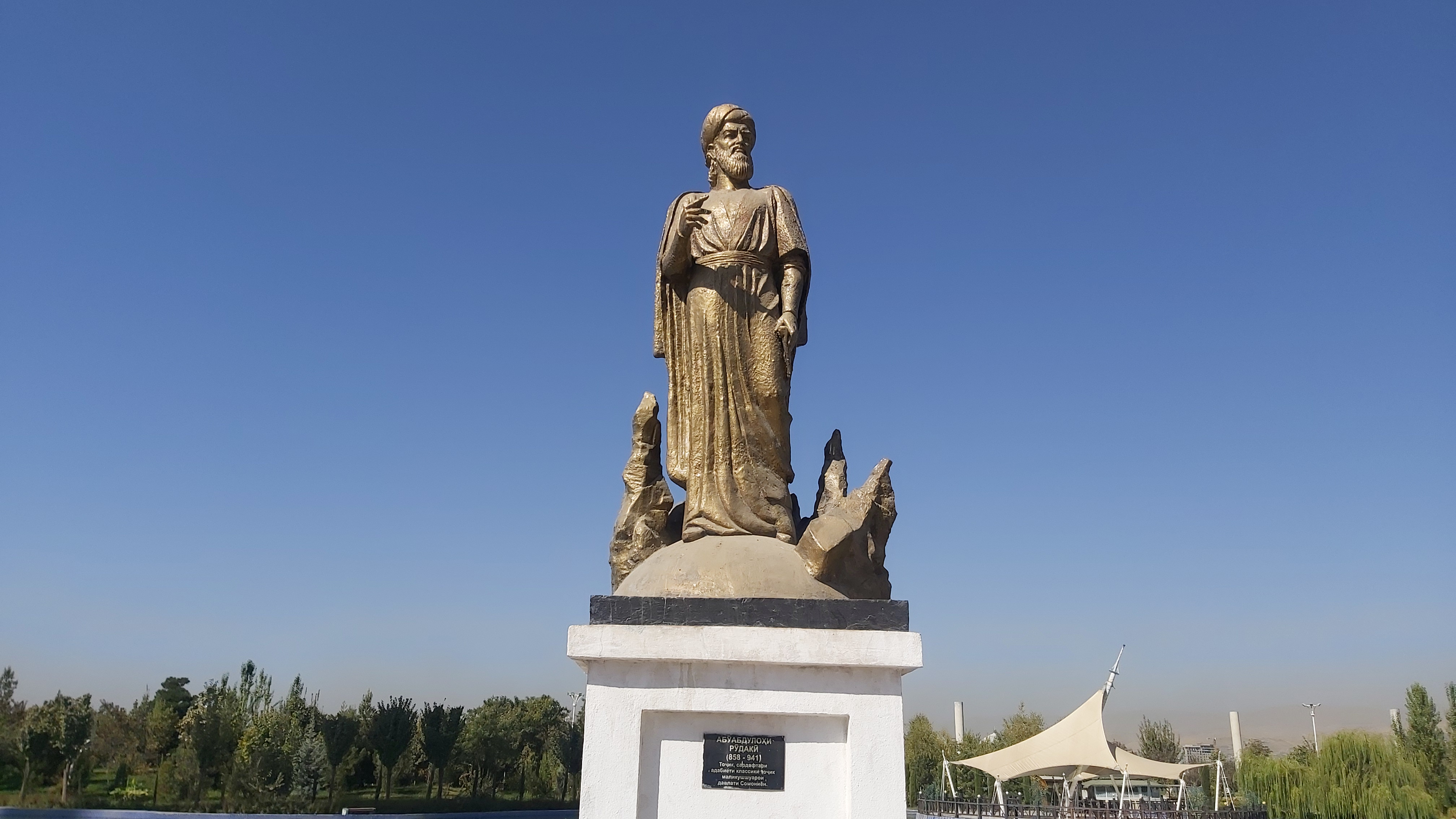 Rudaki